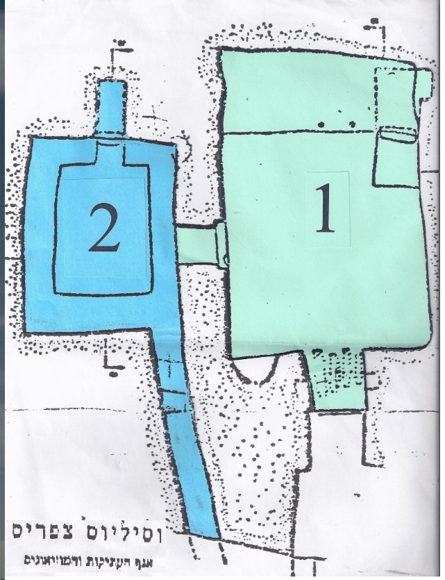 תרשים המערה ע"פ וסיליוס צפריס